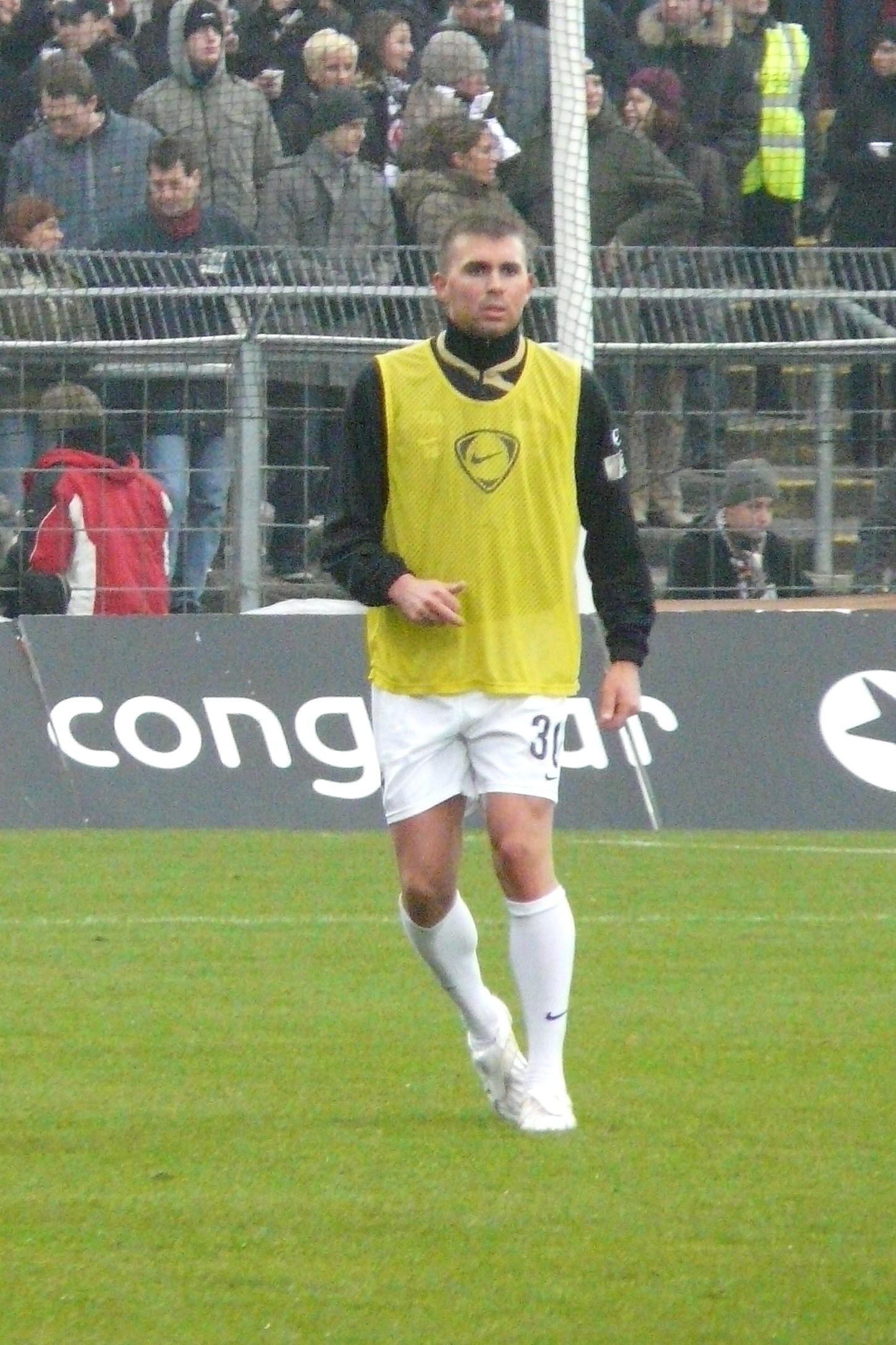 Christopher Reinhard as Player from FC Ingolstadt